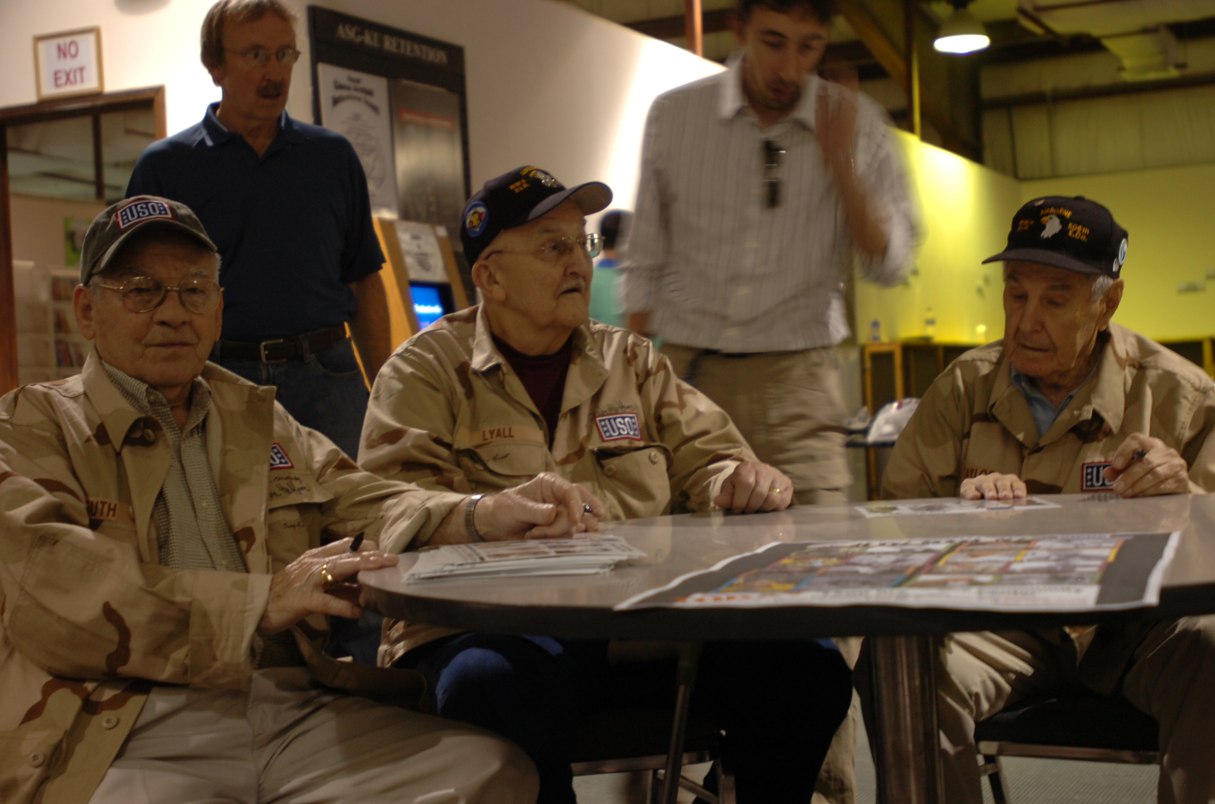 World War II Band of Brothers Meets Operation Iraqi Freedom Band of Brothers From left, Forrest Guth, Clancy Lyall and Amos “Buck” Taylor, WWII veterans and members of Easy Company as featured in the TV series “Band of Brothers,” pose for photos and sign autographs for troops during a week-long visit to the Middle East.